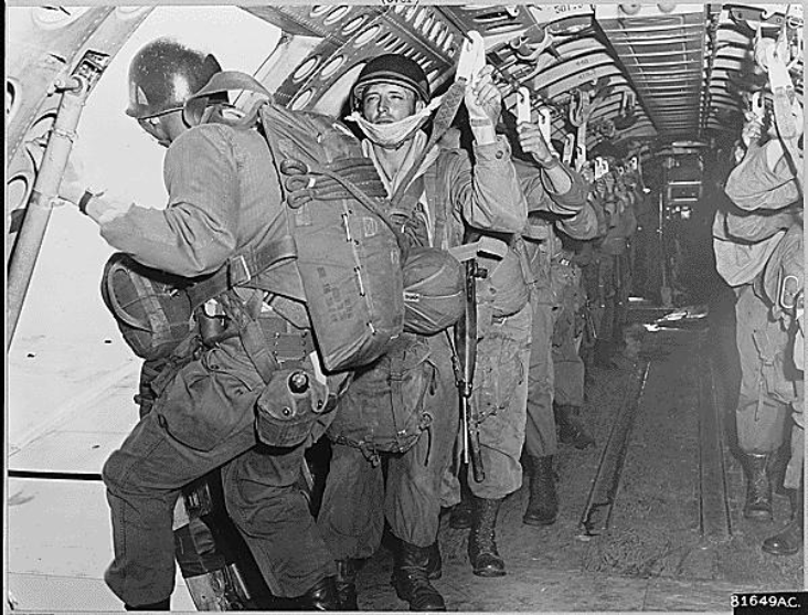 1950 - Korean War - 187th "Airborne" Regimental Combat Team of the 101st Airborne Division, making a jump in the Battle of Yongju.